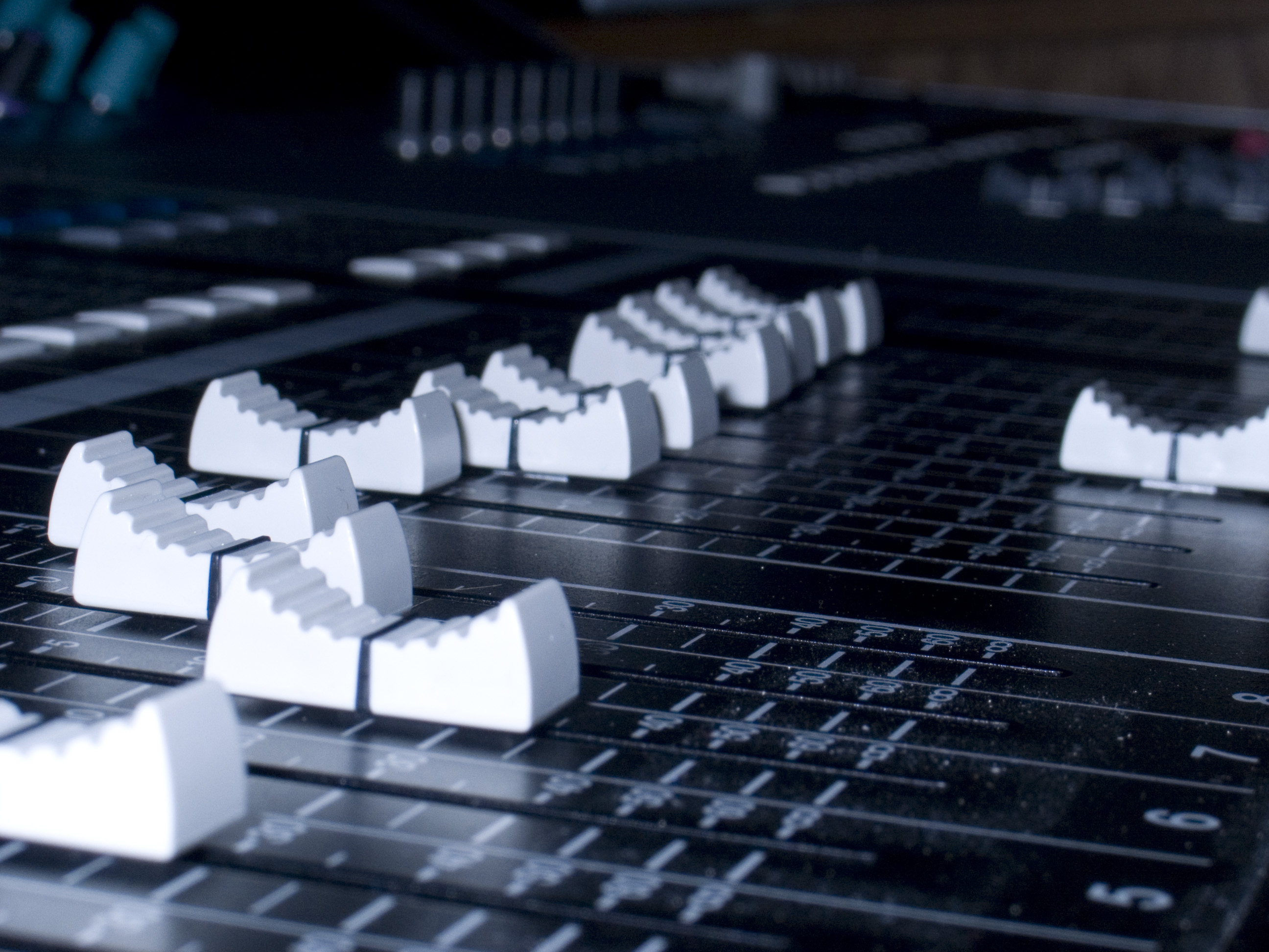 Taken on 2/28/2007.